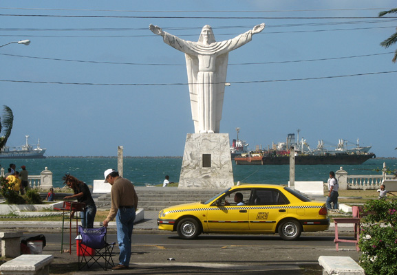 View of the Caribbean from the northern shore.